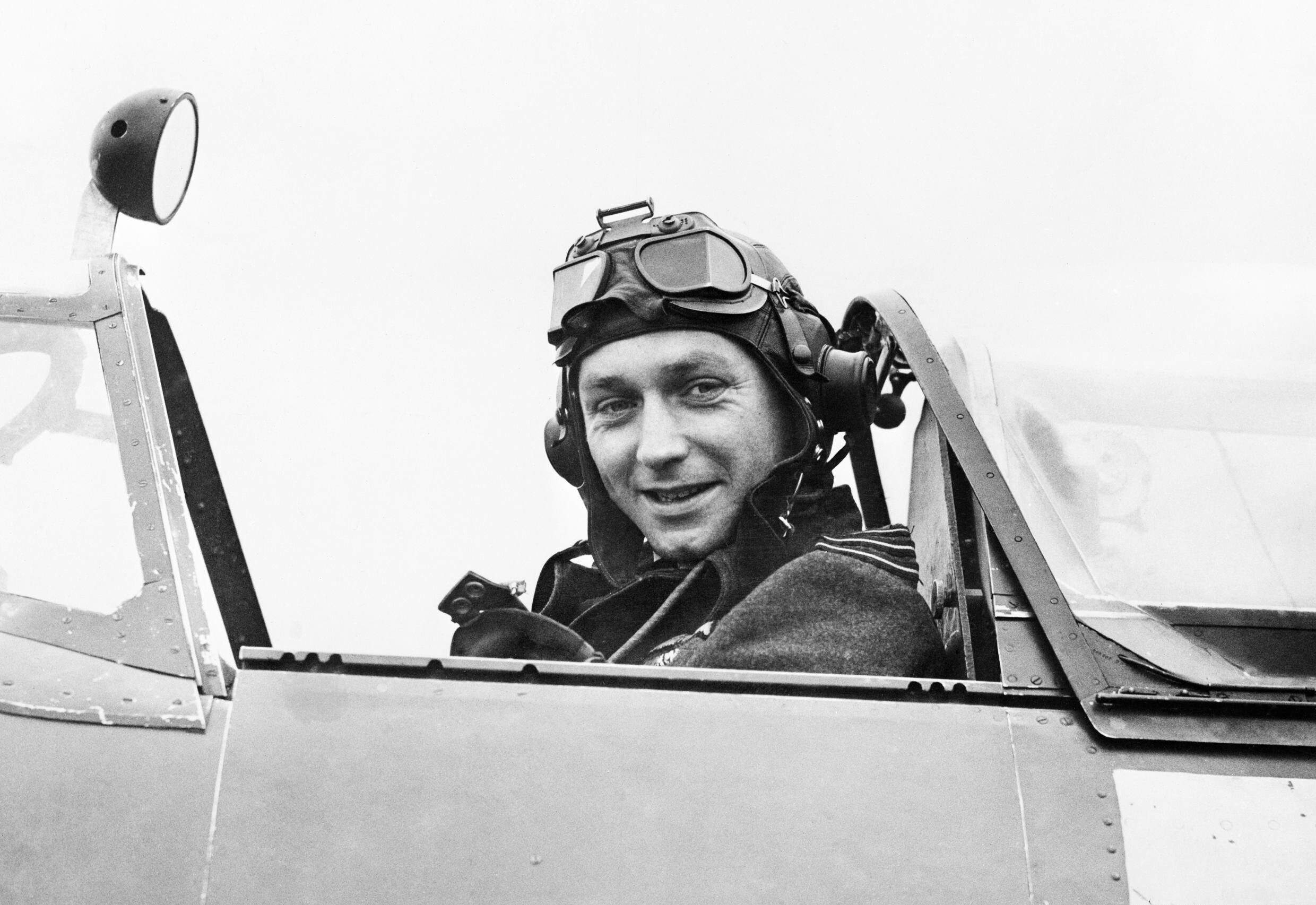 Wing Commander Raymond Harries, commanding the Tangmere Wing, in the cockpit of his Spitfire Mk XII, 1943. Wing Commander Raymond Hiley Harries, D.S.O, D.F.C, and two Bars, of Dolphin Square, London.